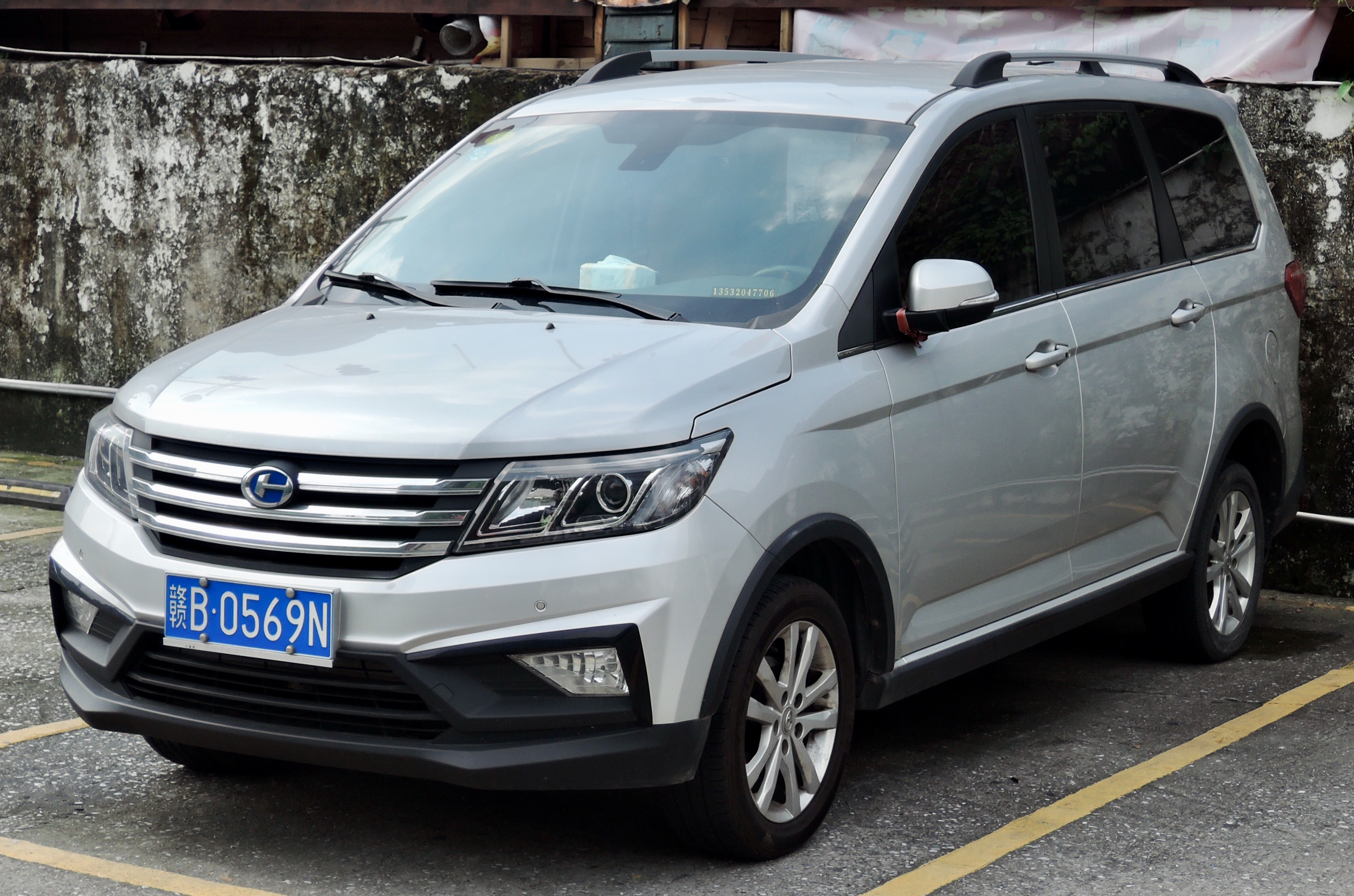 A 2017 Changhe Freedom M70 taken in Foshan, Guangdong province, China. 中文（中国大陆）: 一辆2017年的昌河福瑞达M70，摄于中国广东省佛山市。